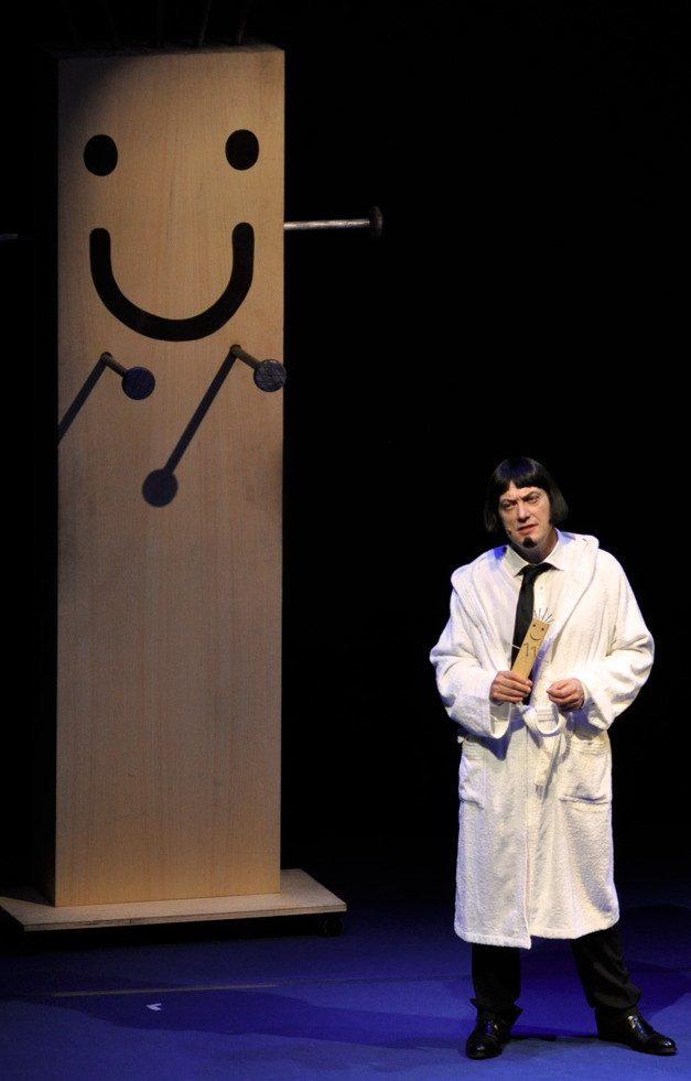 Photo of Quelo, Corardo Guzzanti's character